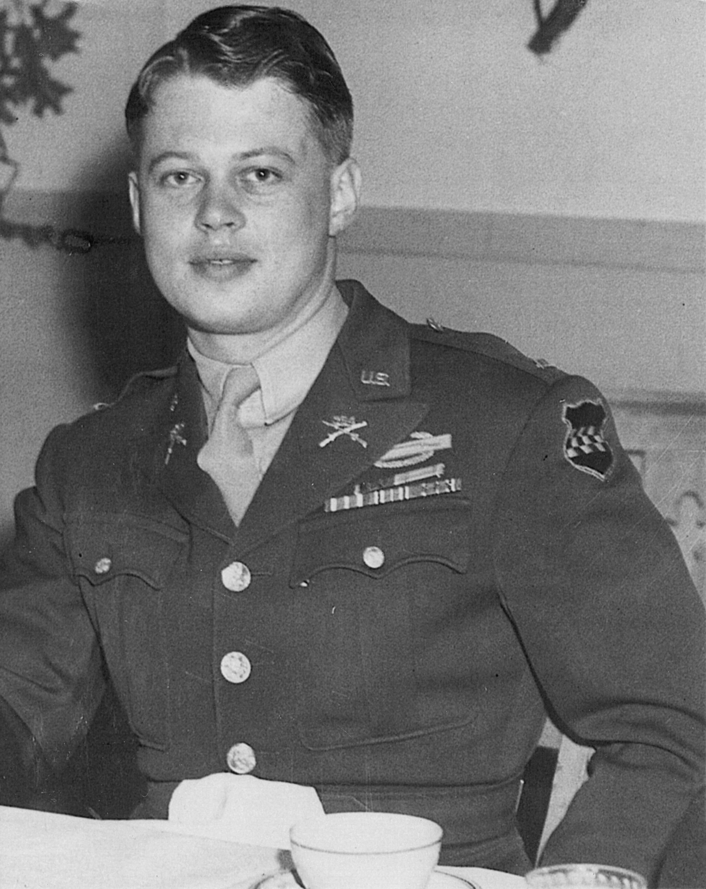 20 year old First Lt. Lyle J. Bouck, Jr., platoon leader of the 394th Infantry Division’s Intelligence and Reconnaissance unit. The 18-man platoon was instrumental in delaying by nearly an entire day the advance of the entire German 1st Battalion, 9th Infantry Regiment, 3rd Parachute Division during the Battle of the Bulge.